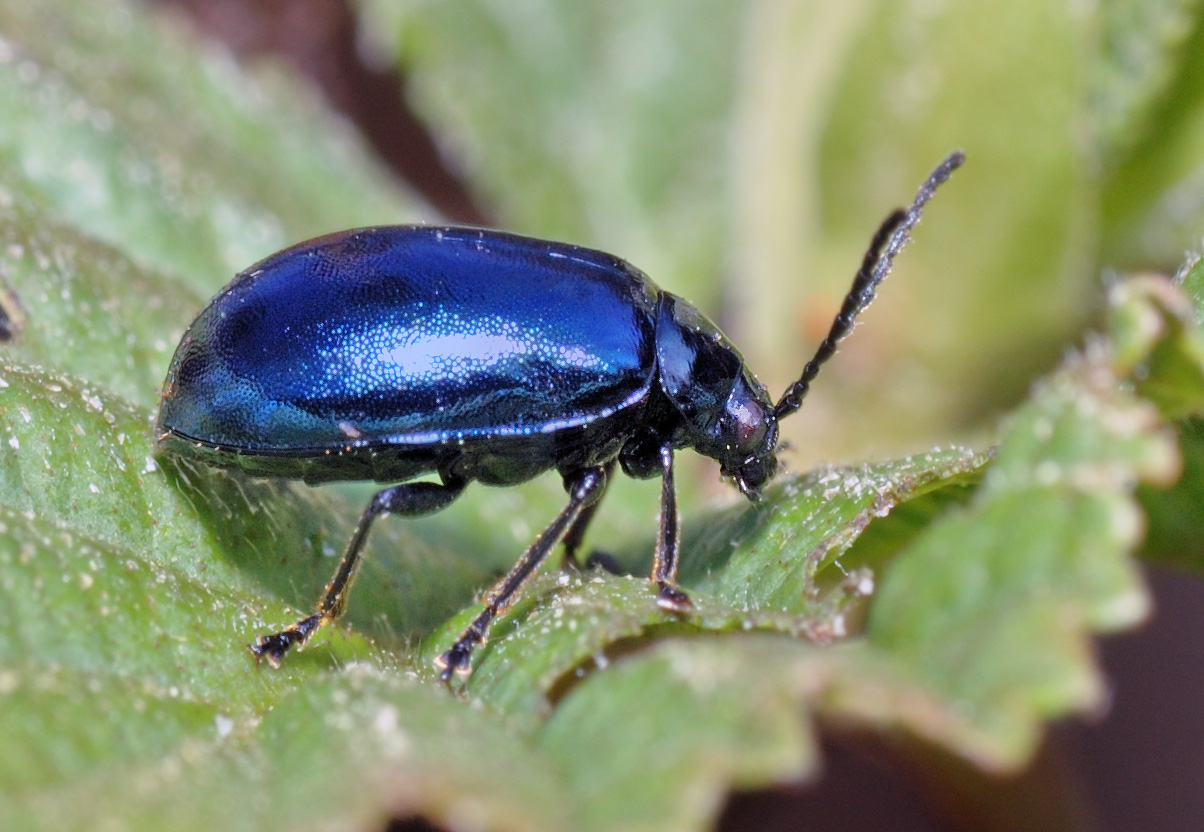 This image shows a 0.28 inch (7.1 mm) long Alder Leaf Beetle (Agelastica alni).